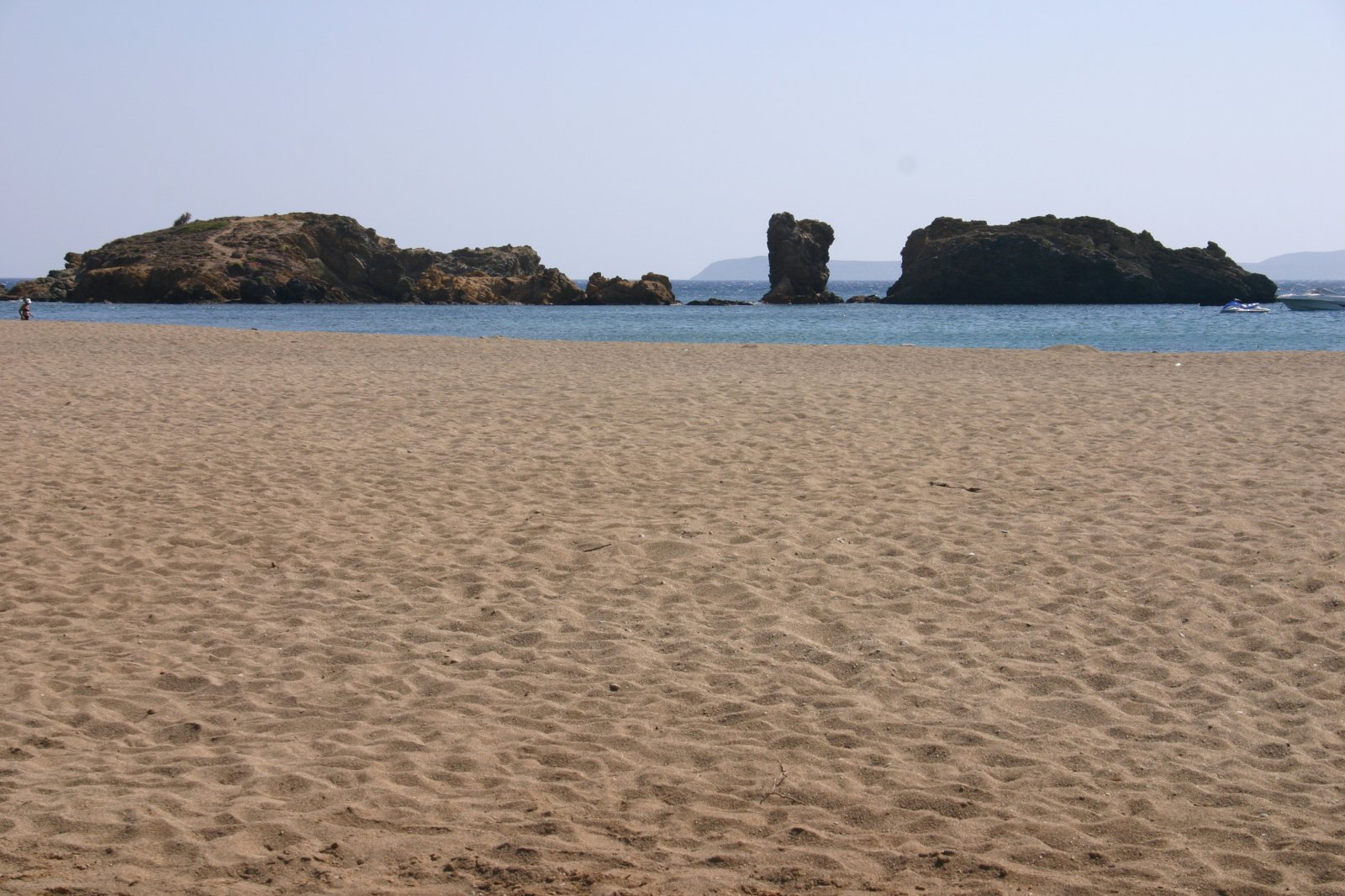 Peristerovrachi rocks, in front of Vai beach, Crete, Greece